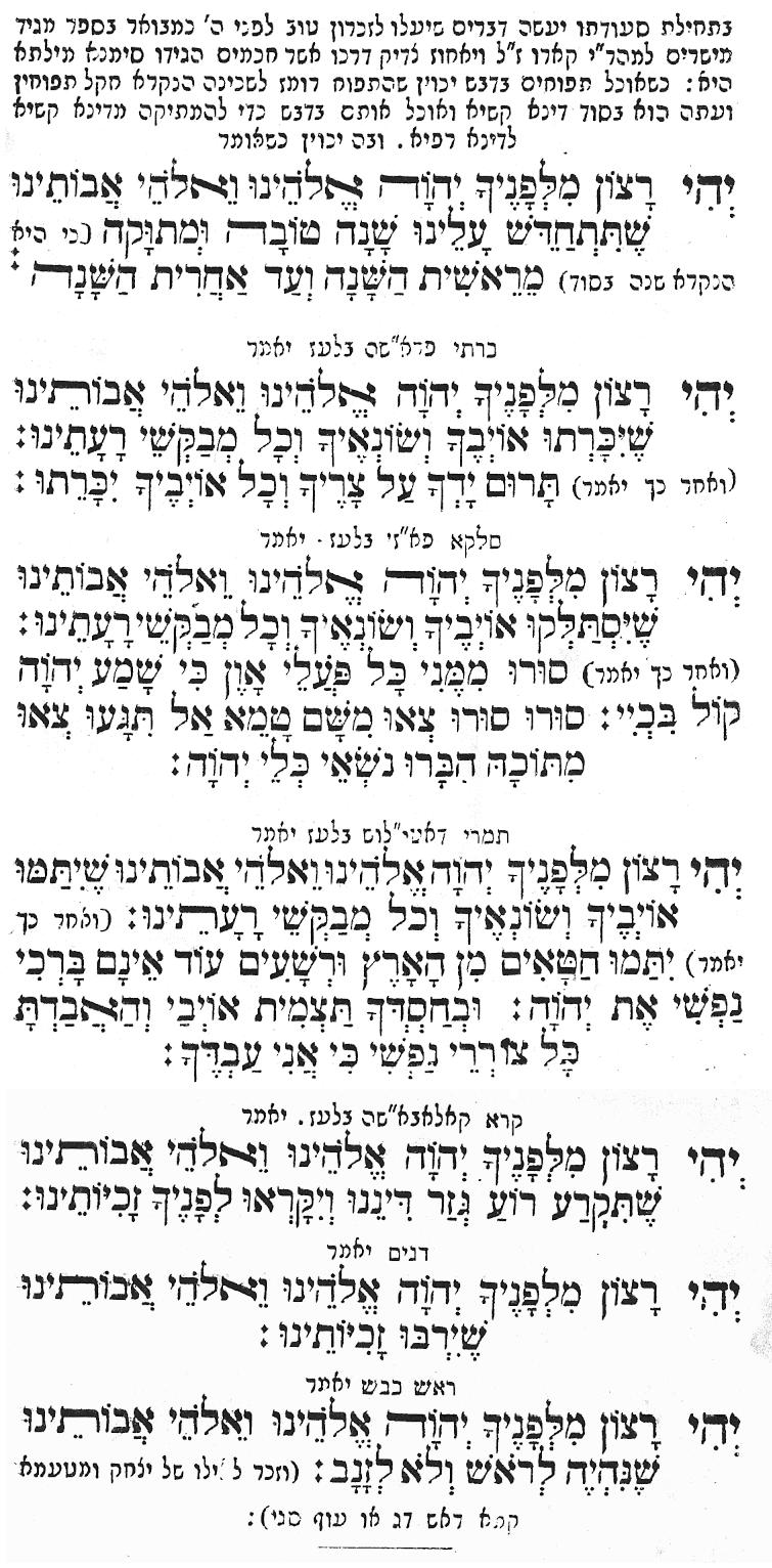 description of symbolic food and prayers sayed while eaten, in the dinner of Rosh Hashana